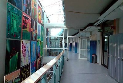 ISD cafe view